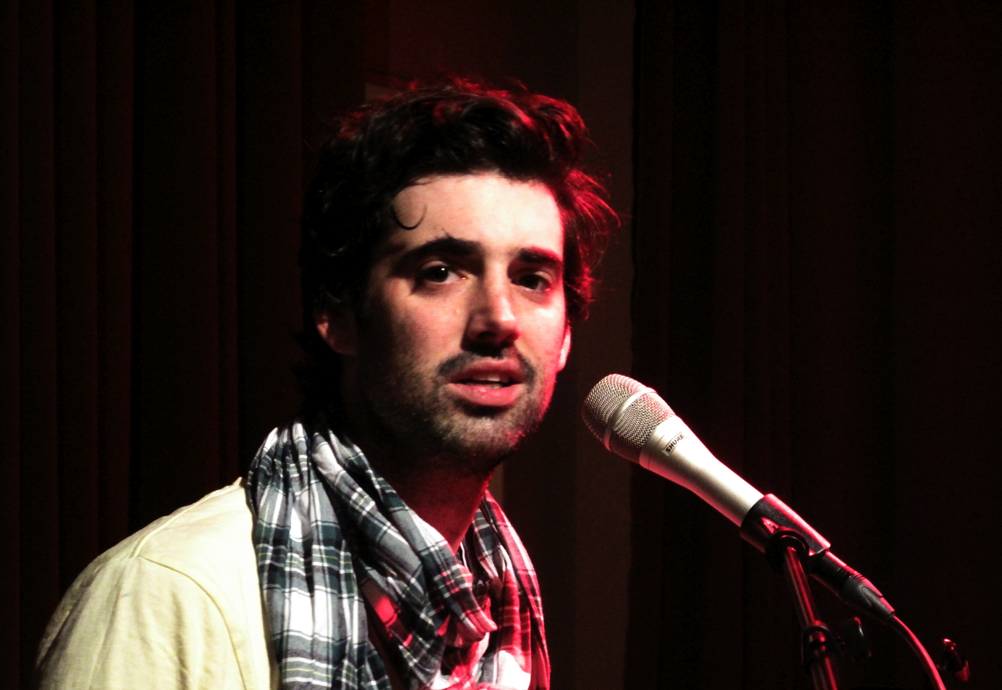 Ruben Hein during Album Launch